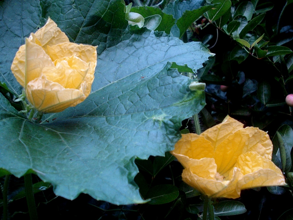 Winter melon flower